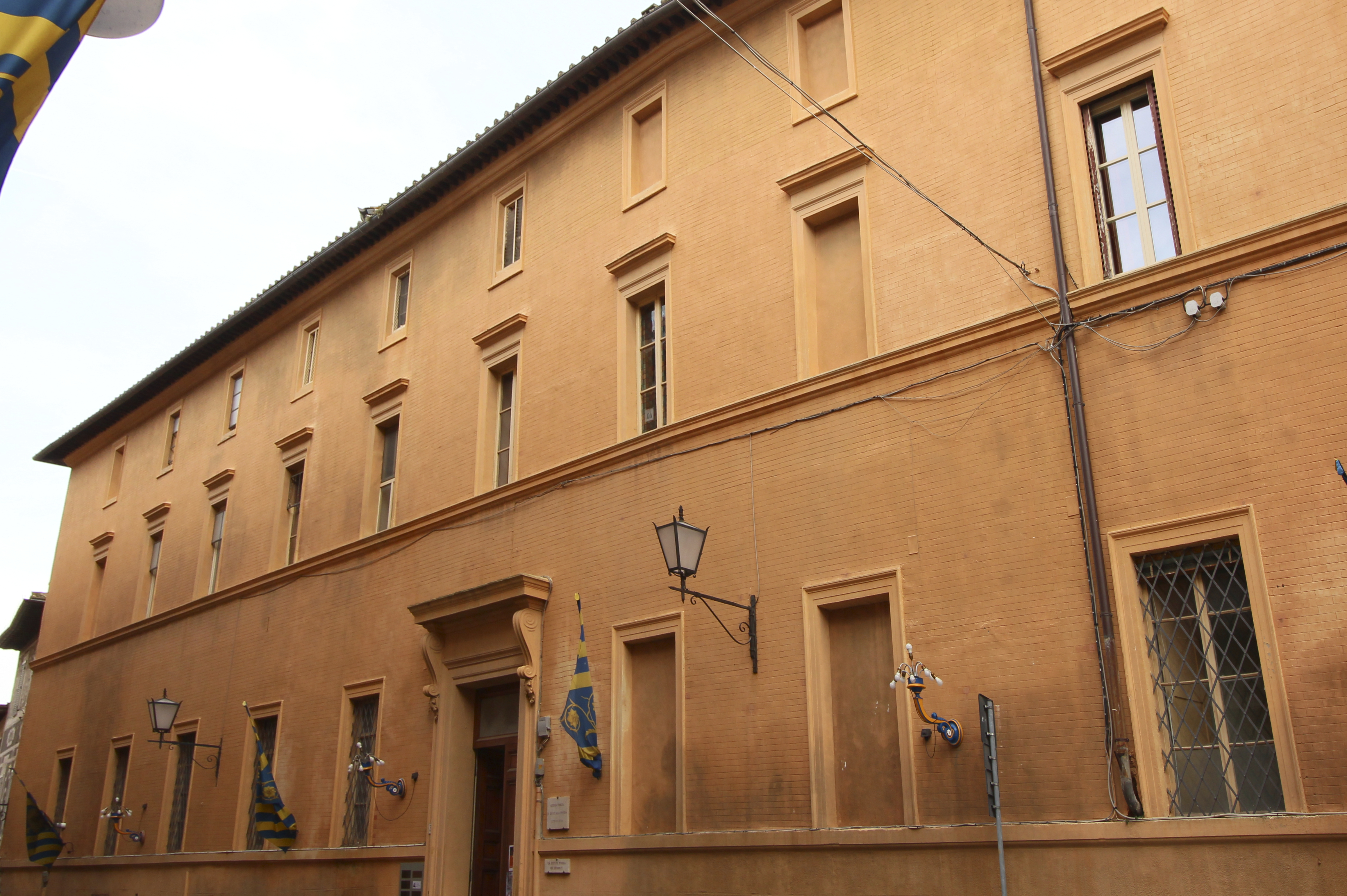 Pendola Institute "Istituto Tommaso Pendola", Via Tommaso Pendola, Siena, Province of Siena, Tuscany, Italy